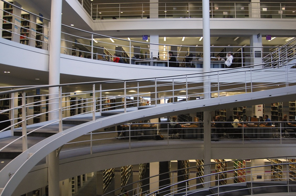 LSE Library, The British Library of Political and Economic Science